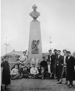 Bust of Suvorov in the village of Suvorovo, the Governorate of Penza